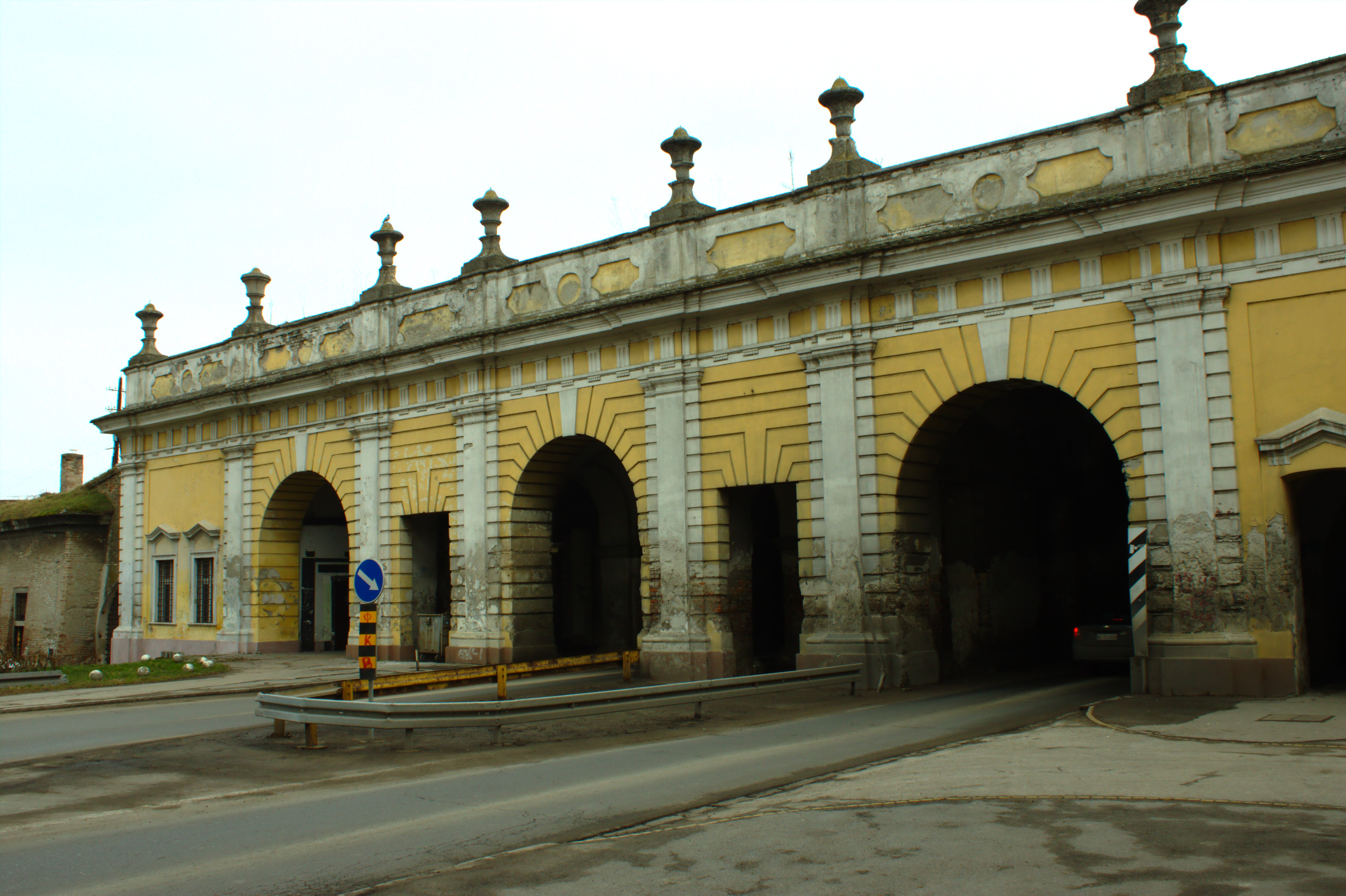 Belgrade gate on the eastern side of old town of Petrovaradin, Novi Sad, Serbia